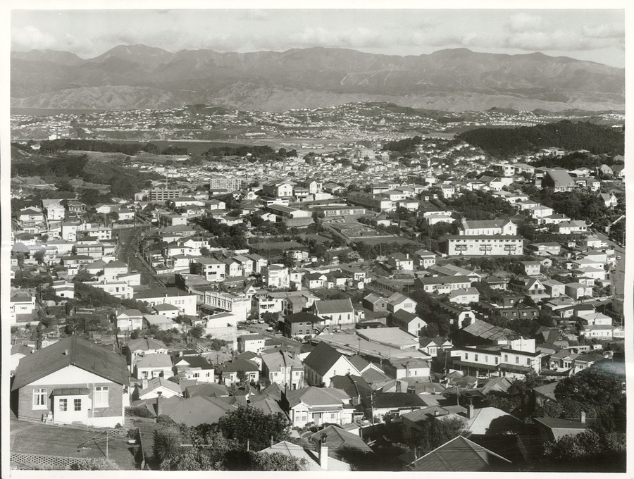 Images from NZ Archives Flickr albums Images uploaded in collaboration between WMUK and the University of Edinburgh